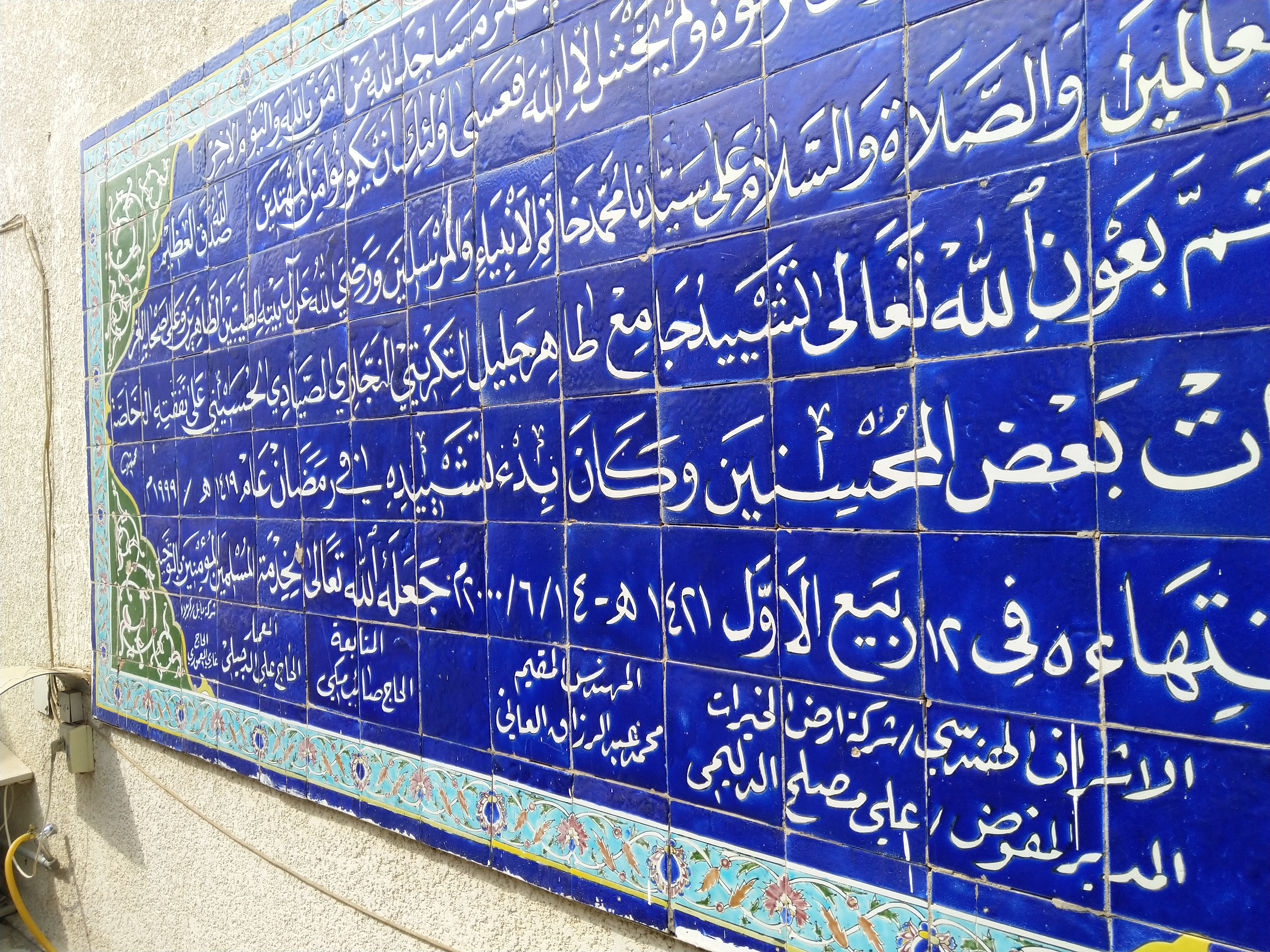 Tahir Jalil Habboush Mosque in Baghdad